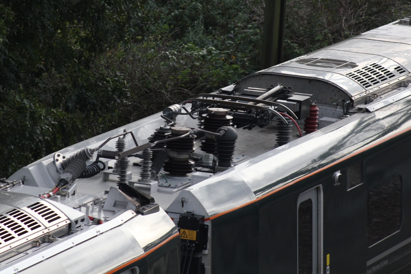 The pantograph on a Hitachi InterCity Express Train for Great Western Railway (train number 800003). These trains are designed to operate from 25Kv electricity but also have three under-floor diesel engines so that they can operate "off the wires" to places such as Taunton.